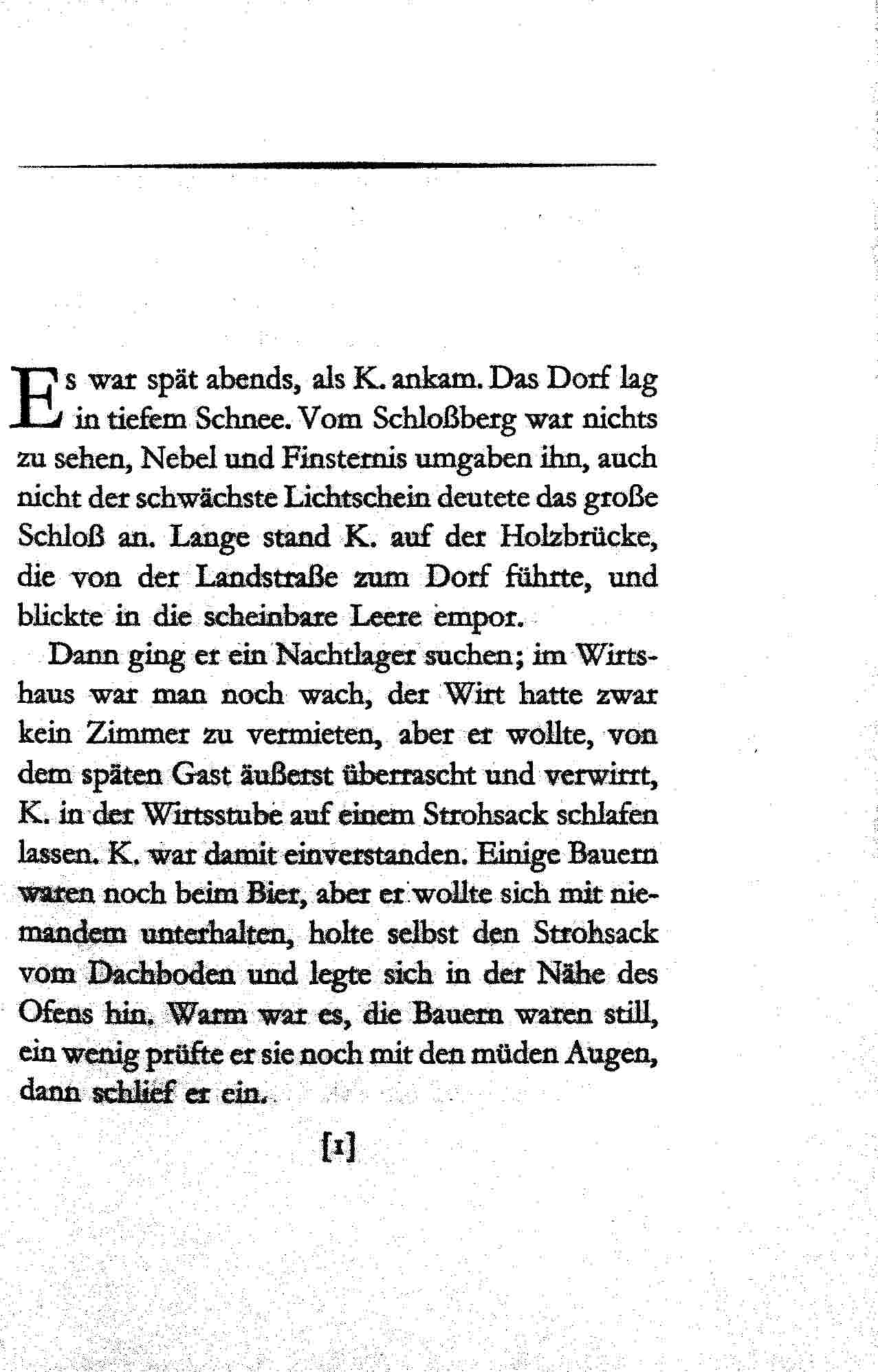 This is a scan of the historical document